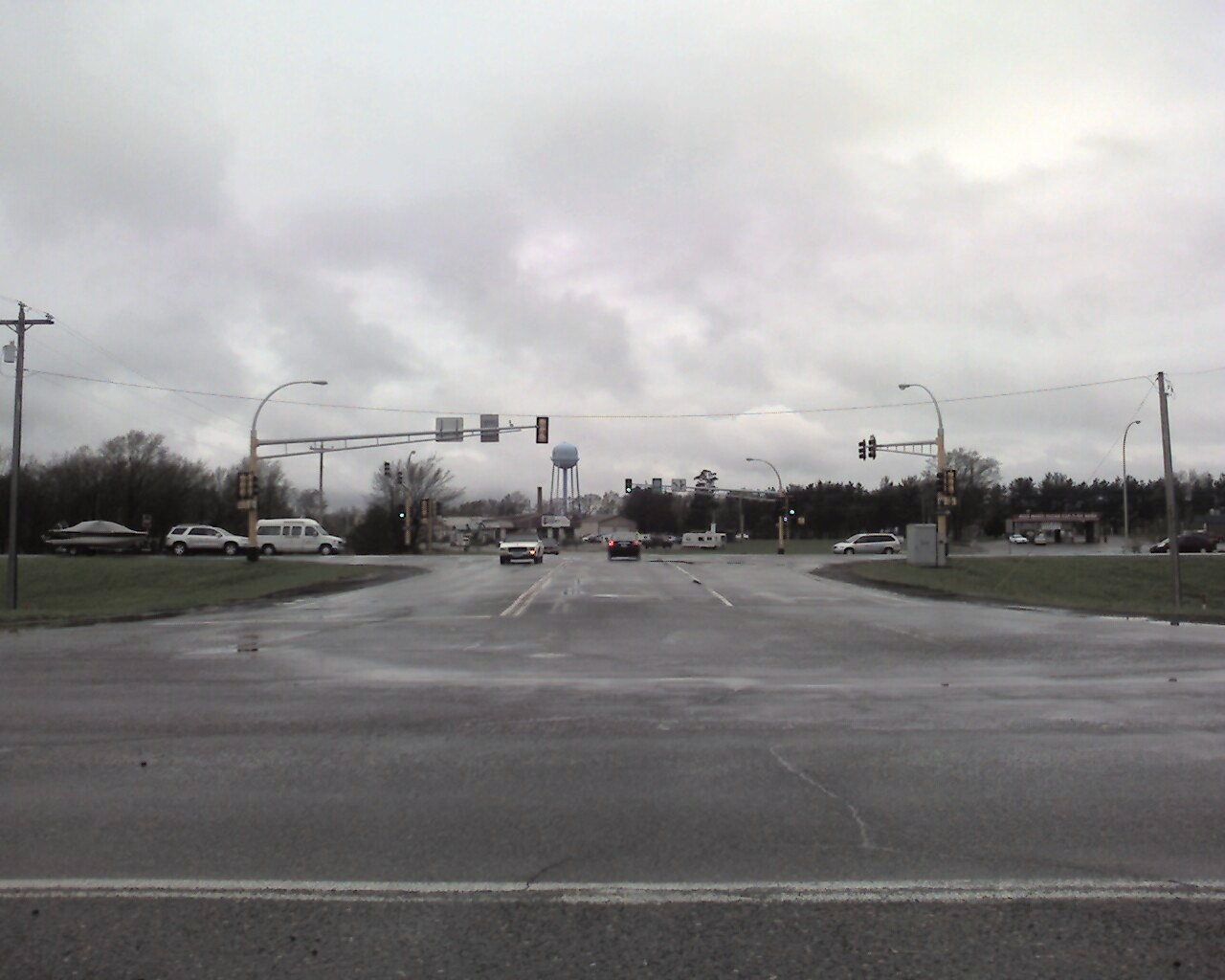 City of Rice View from Highway 10